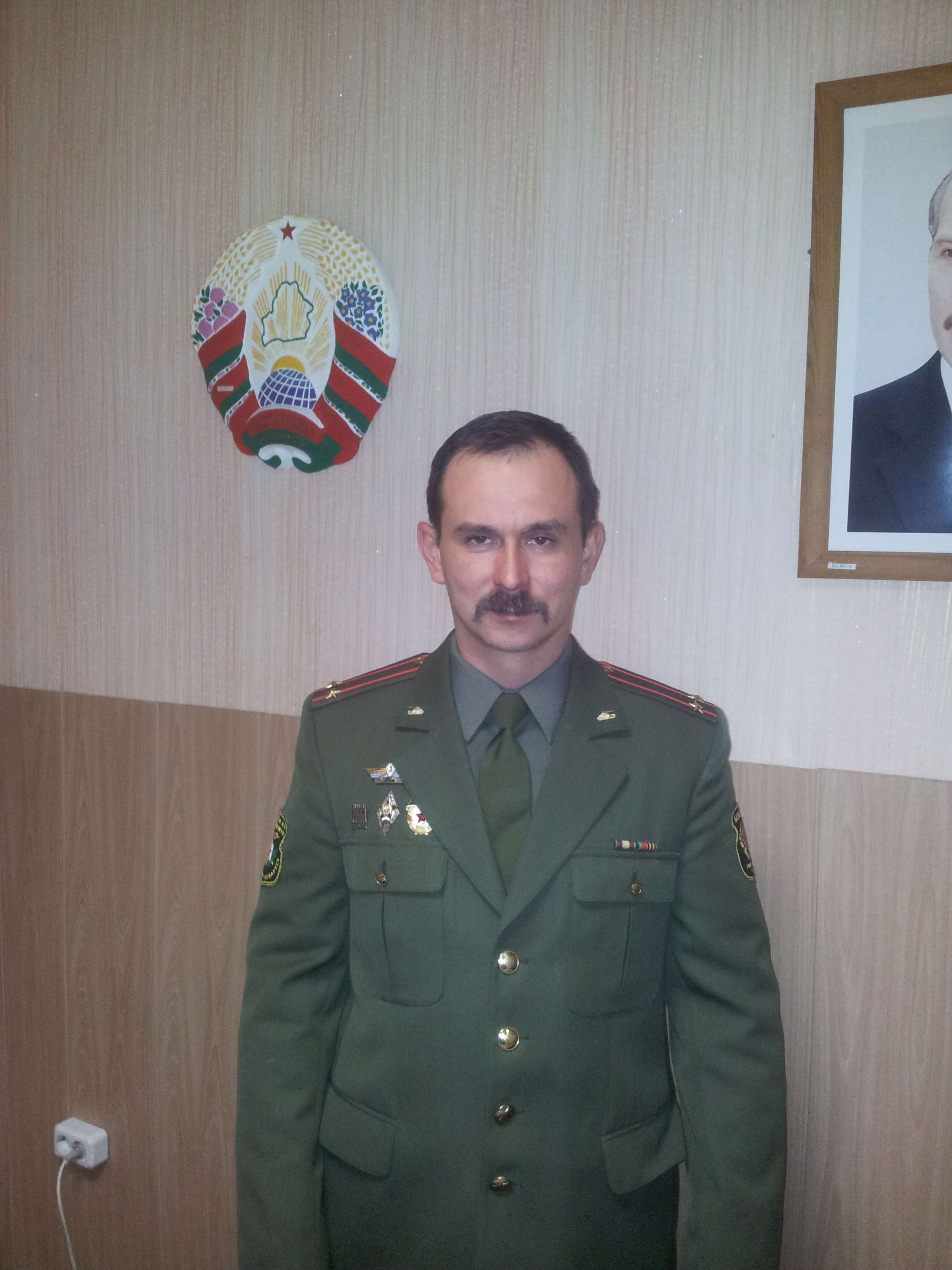 Colonel Dzmitryj Sulimaŭ